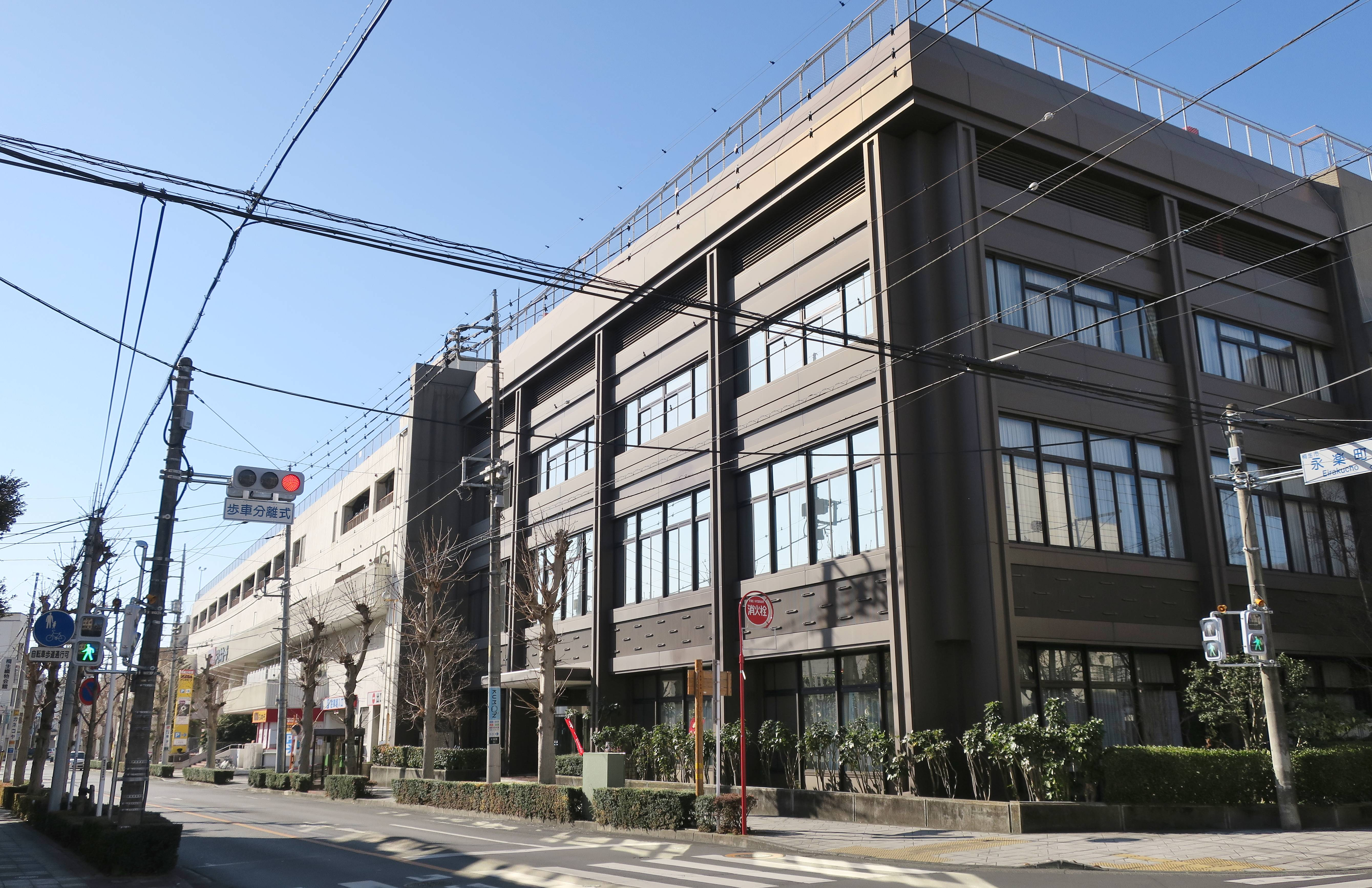 Kiryu Textile Hall.